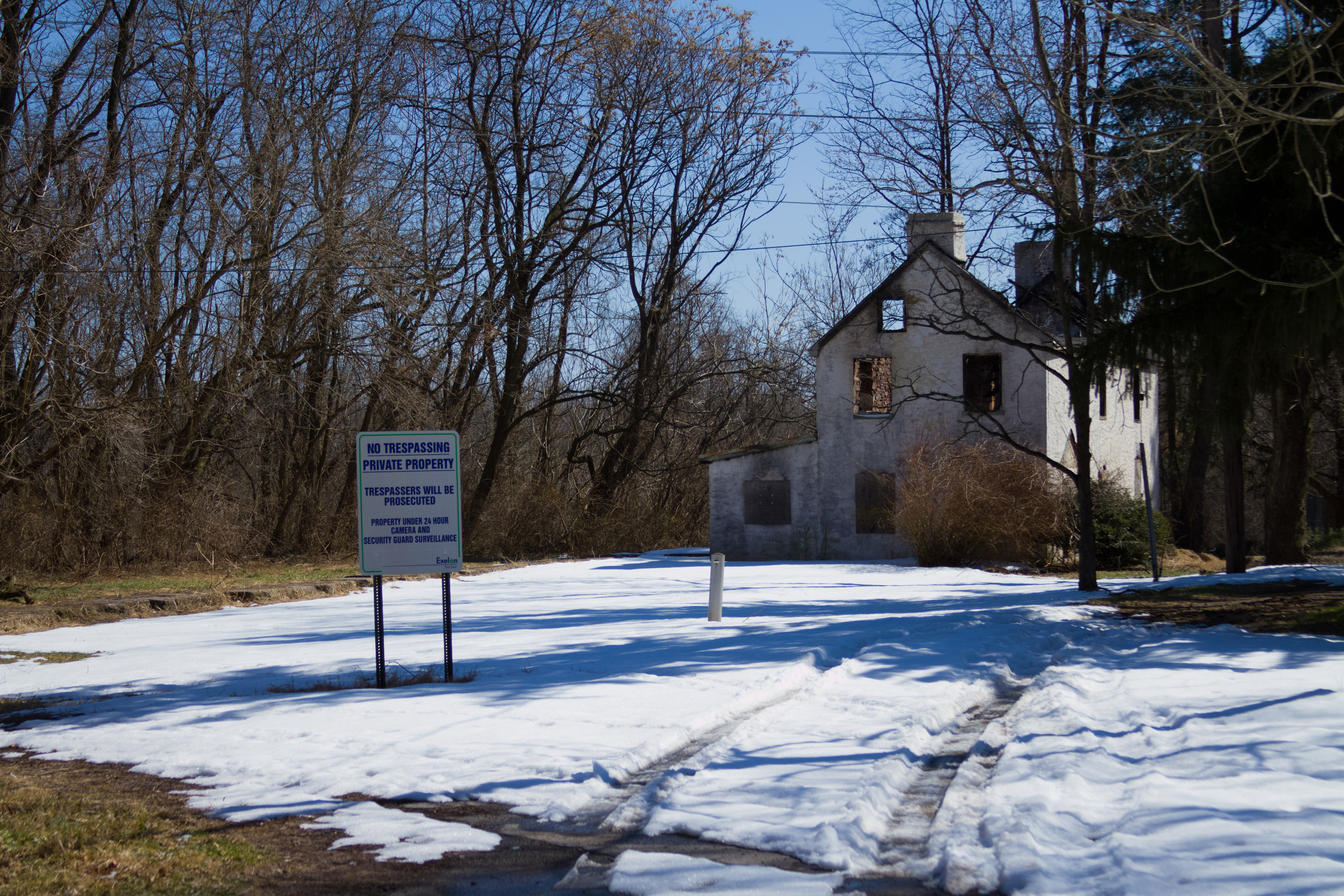 The former locktender's house at Frick's Lock, with a "No Trespassing" sign in the foreground